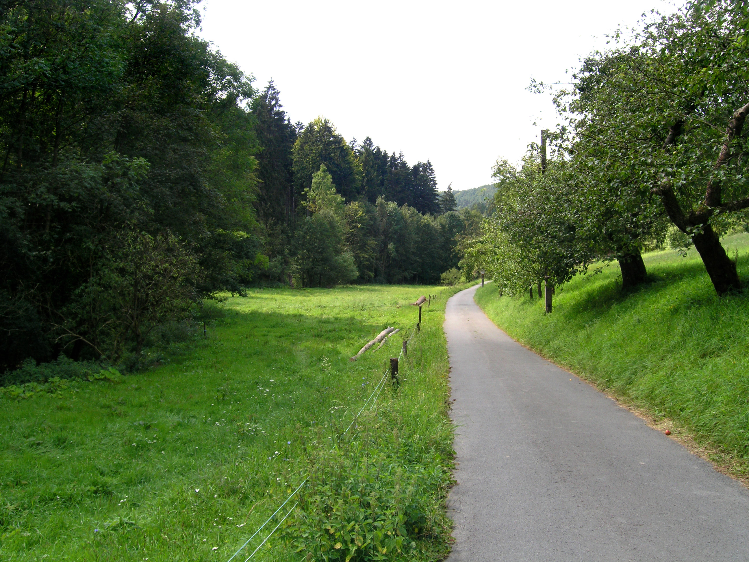 Landscape by Podloučky, part of Klokočí village by Turnov, Czech Republic